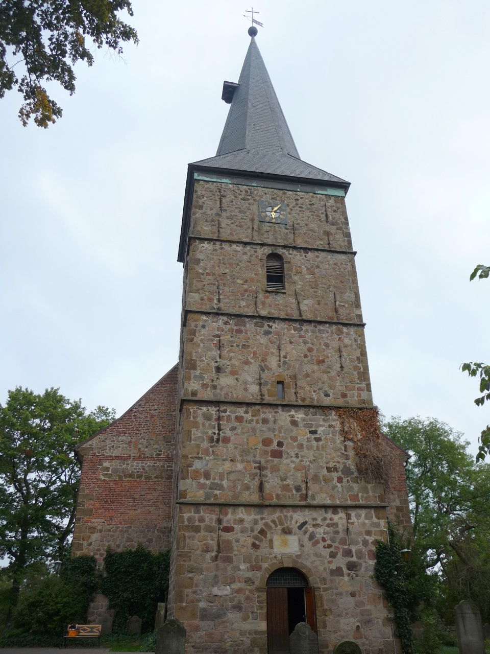 church St. Martini in Bremen-Lesum